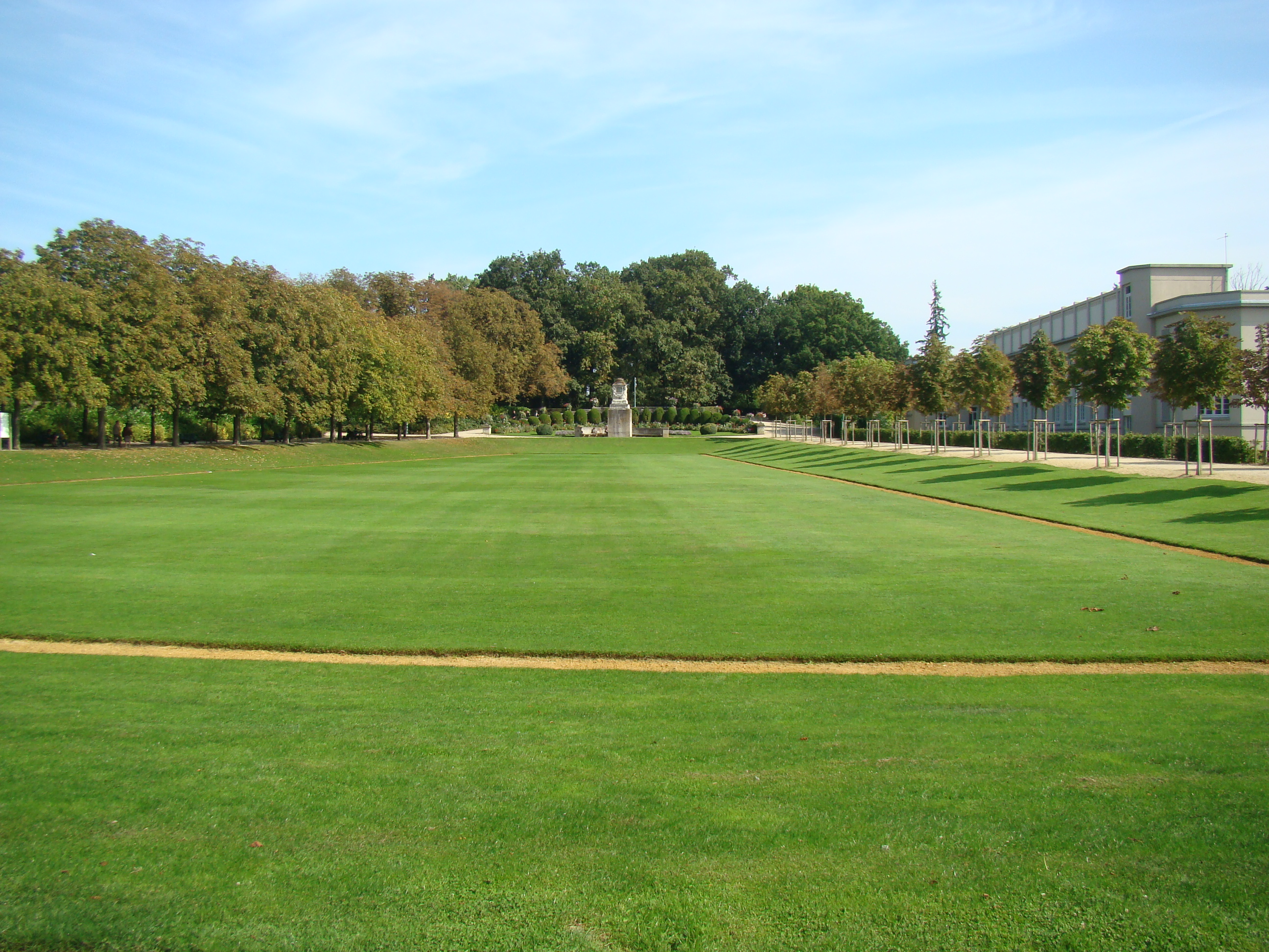 Carré (square) Du Guesclin. Look out onto boulingrin (bowling green) and column Vanneau-Papu (on the right).